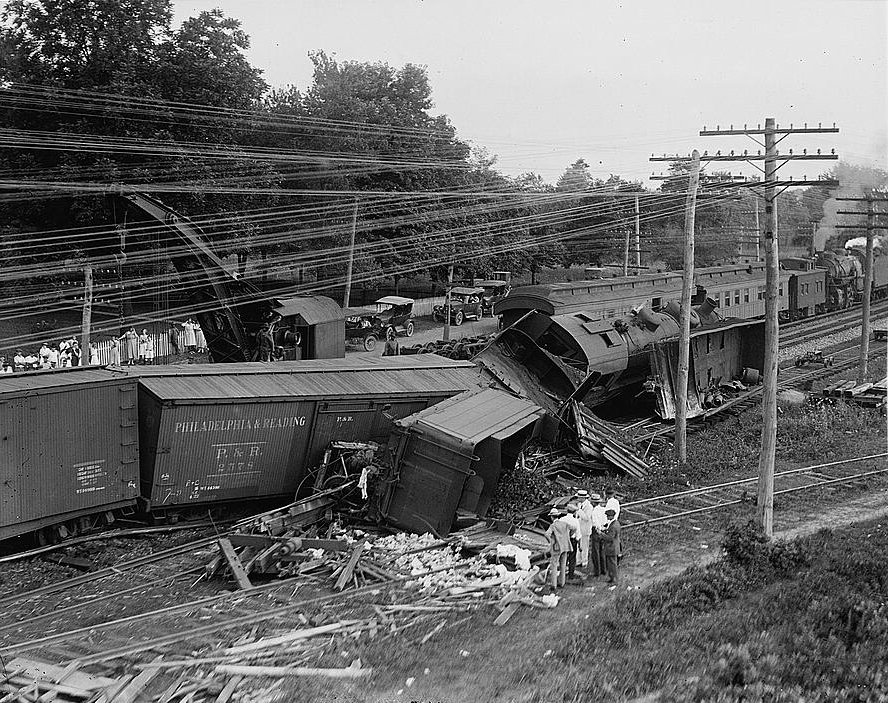 July 31, 1922. Train wreck at Laurel, Maryland. "2 Freights Crash at Laurel Switch -- B&O Trains Wrecked," Washington Post, August 1, 1922, Page 3. Close variant of this photograph illustrates article.